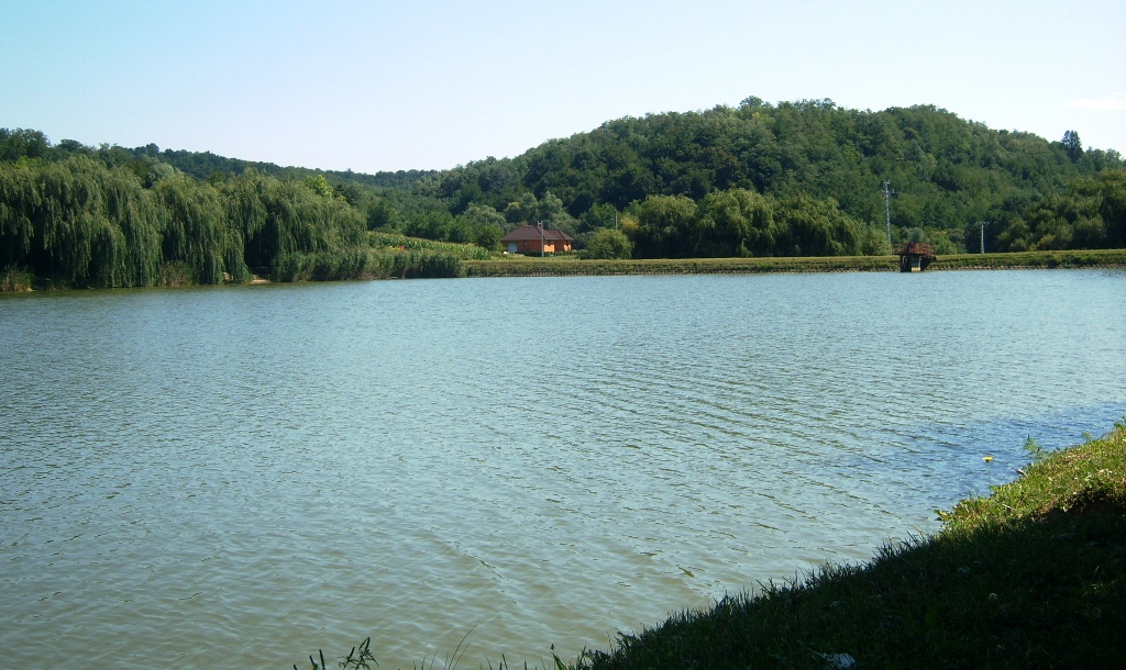 Lake in Csatár, Zala county